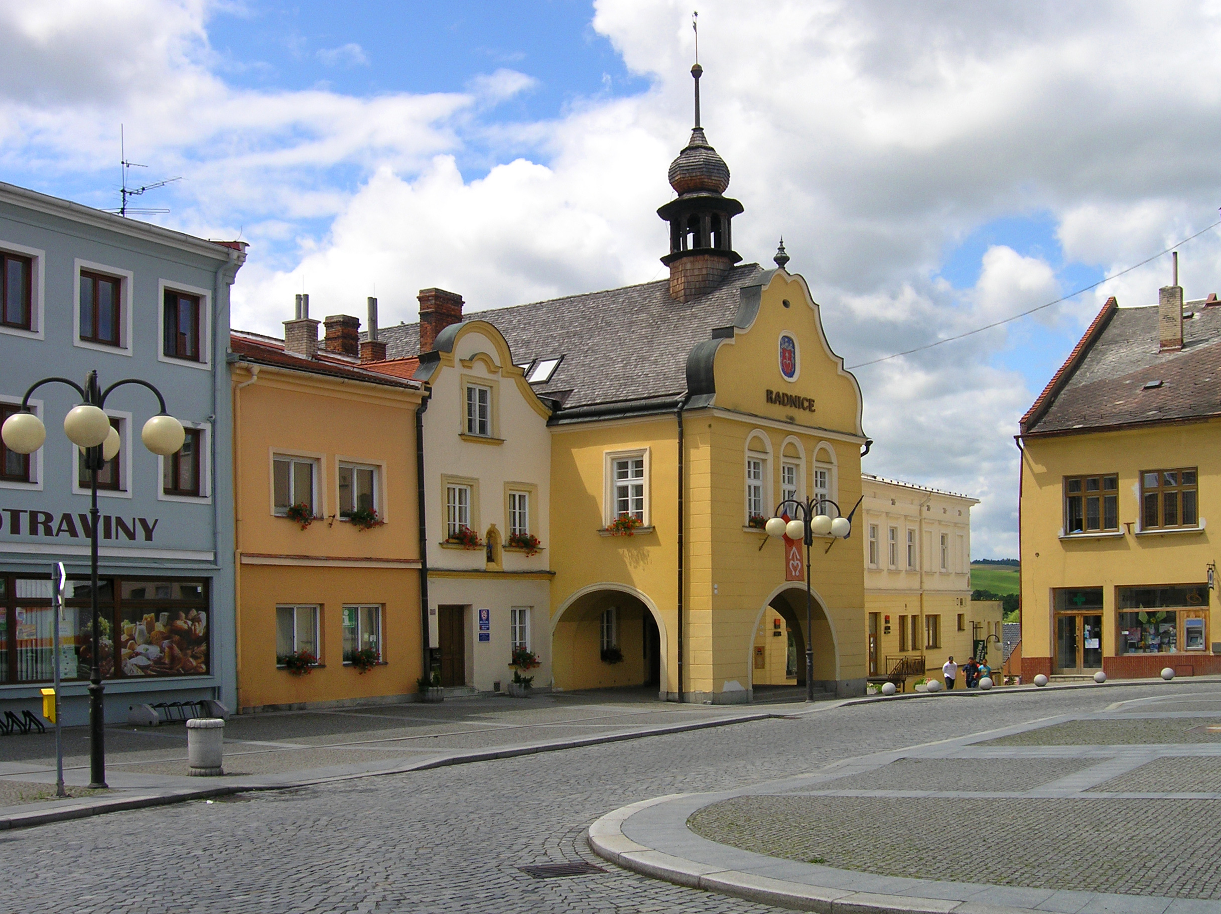 Town hall in Bílovec, Czech Republic